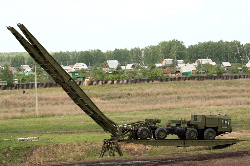 A TMM-6 bridgelayer during the eighth Exhibition of Military Equipment, Technologies and Armament for Land Forces -VTTV-Omsk-2009.